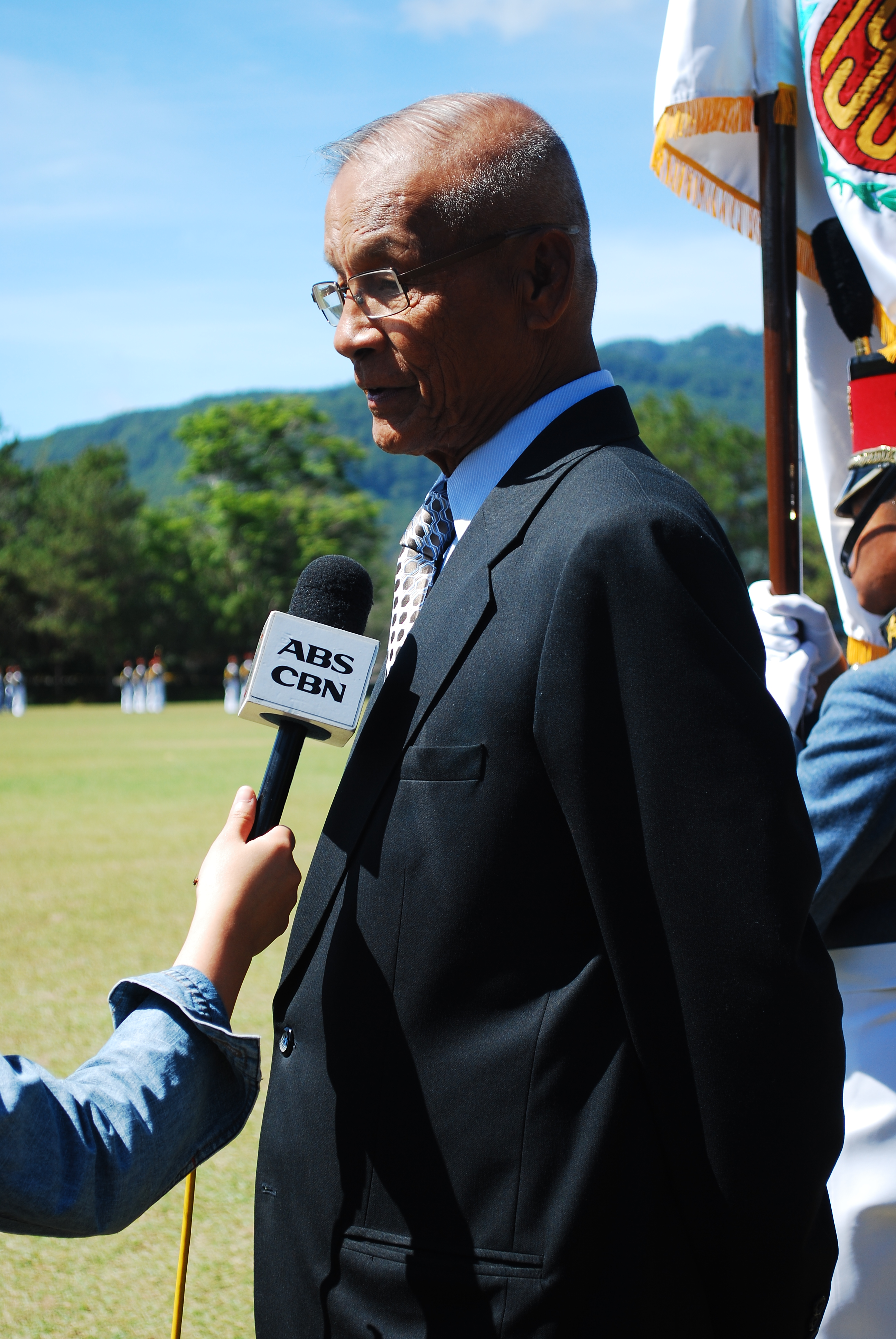 Rodolfo Biazon being interviewed by an ABS-CBN reporter at the Philippine Military Academy in Baguio City, the Philippines.